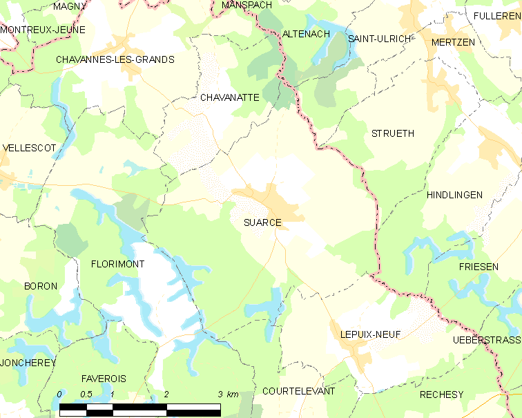 Map of French municipality Suarce